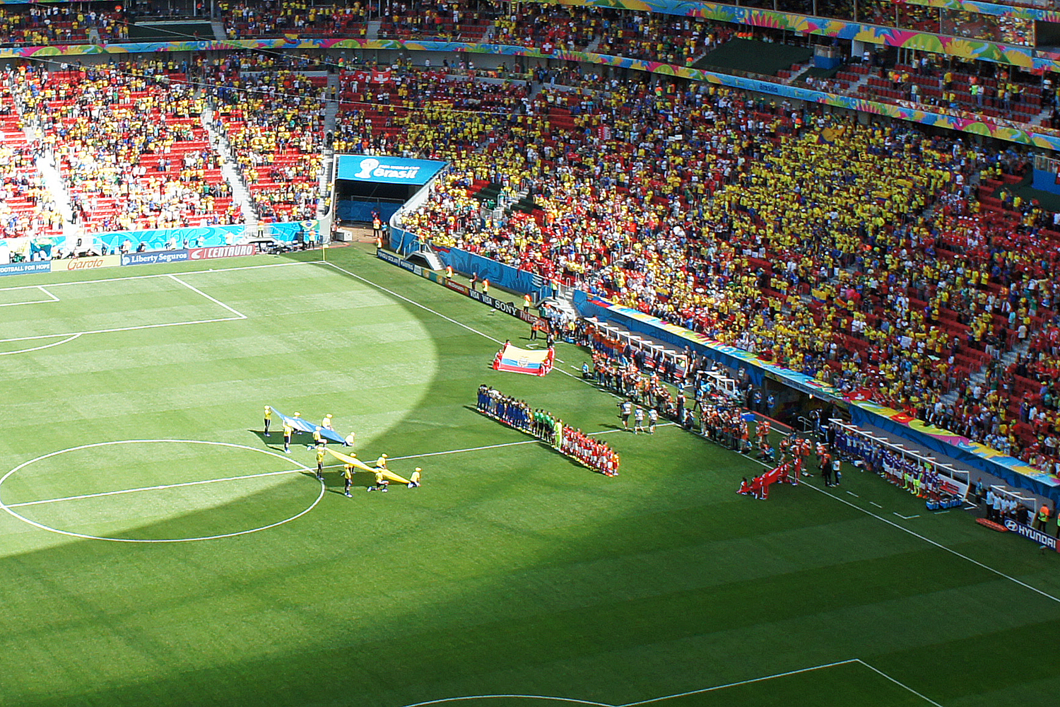 Switzerland and Ecuador match at the 2014 FIFA World Cup , Estádio Nacional Mané Garrincha, Brasilia